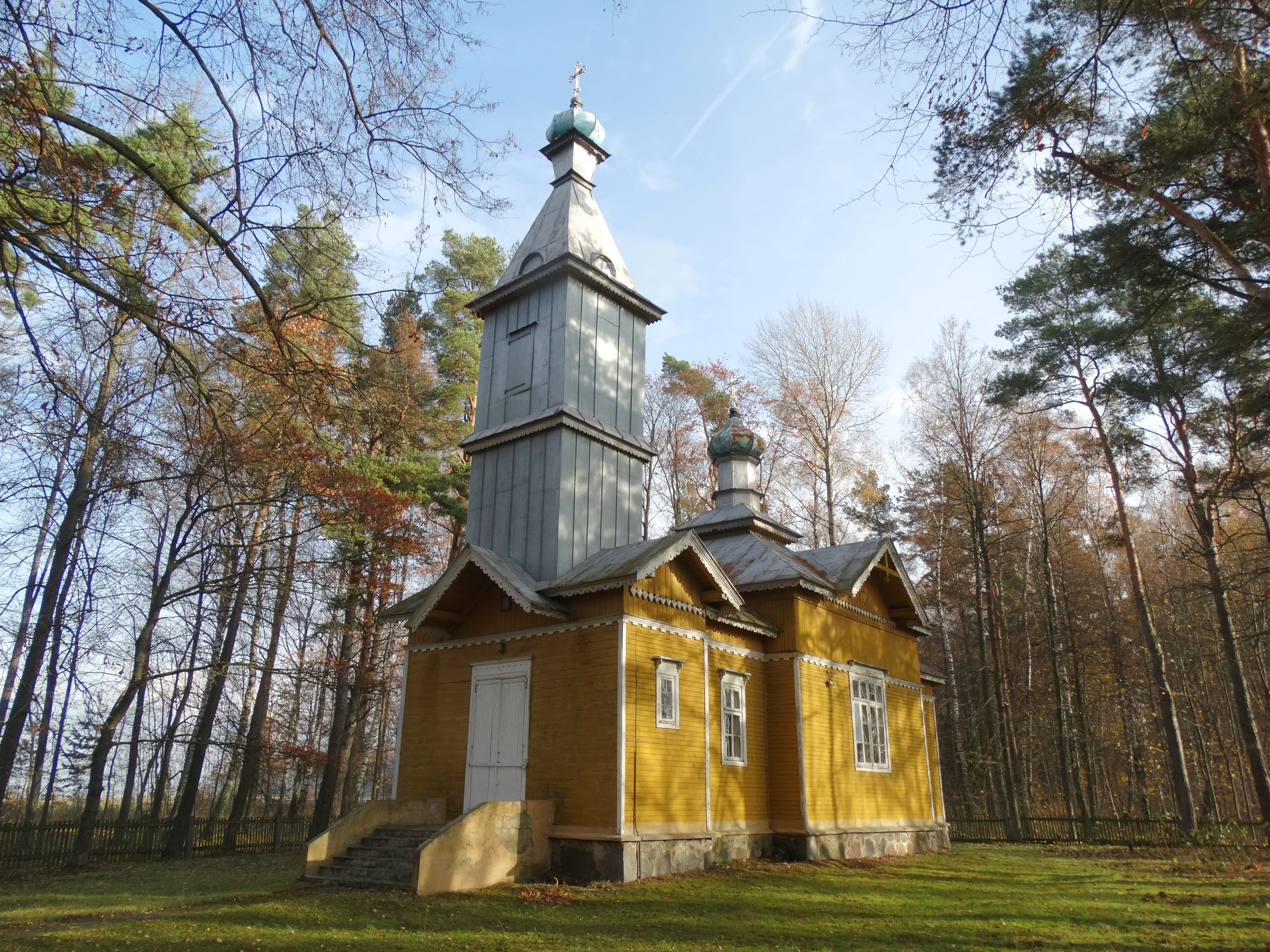 Orthodox church, Gegabrasta, Pasvalys district, Lithuania